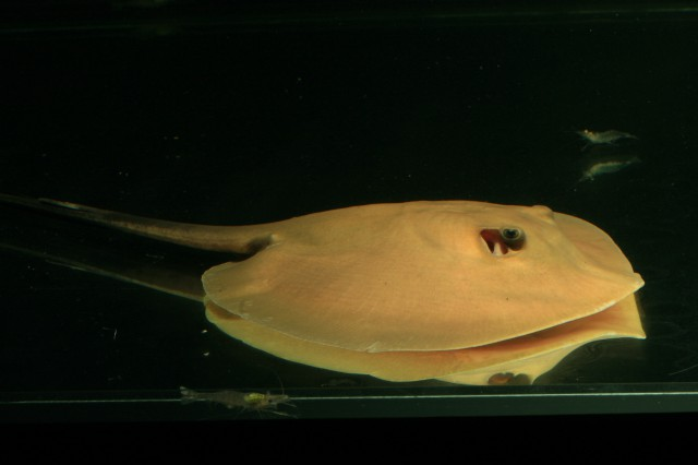 Dasyatis laosensis